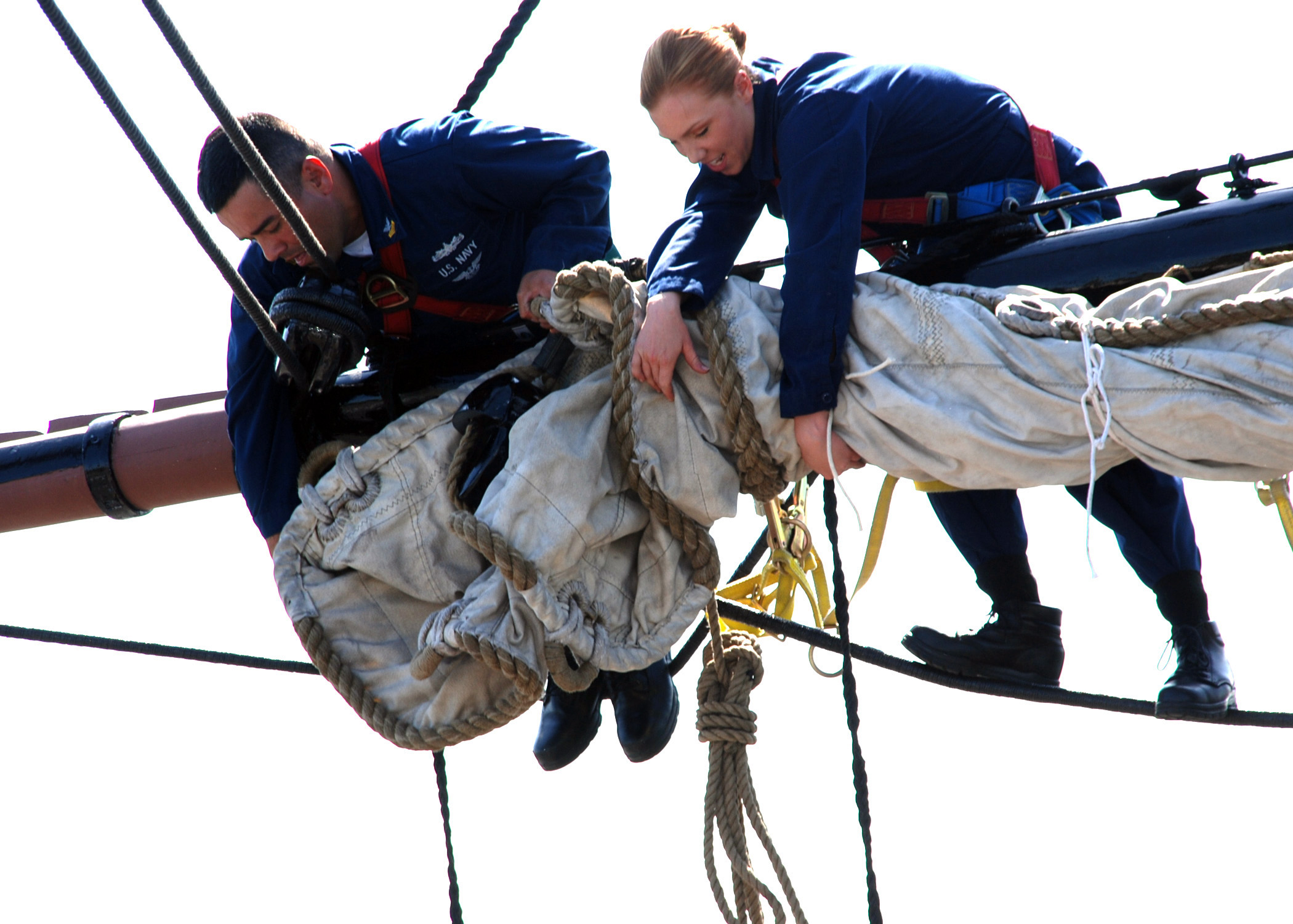 CHARLESTOWN, Mass. (May 30, 2007) - About 100 feet above the deck of USS Constitution, Yeoman 1st Class Rob Santiago and Seaman Nola Sparks bend a 500-lb., 158-square yard cotton canvas sail to the ship's portside mizzenmast topsail yard. About 20 Sailors spent several hours on May 30, 2007, rigging the first of six sails to the 2,200-ton, three-masted wooden frigate, readying "Old Ironsides" for two underway demonstrations this summer. USS Constitution is - at 209 years old - the oldest commissioned warship afloat in the world, manned by 64 active duty U.S. Navy Sailors, and visited by nearly half a million tourists annually. U.S. Navy photo by Mass Communication Specialist 1st Class (SW) Eric Brown (RELEASED)